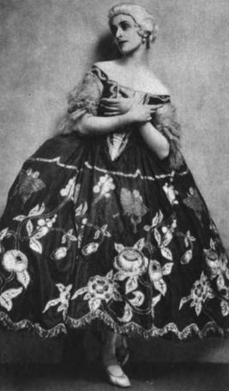 Muriel Stuart, an English ballerina, wearing a dark and voluminous costume with elaborate floral embroidery, and a powdered wig. Her hands are crossed at her chest.